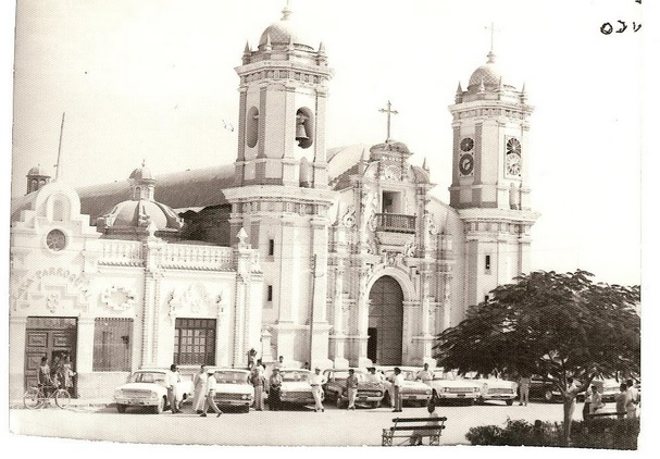 Medio de transporte que movilizaba a la población hacia la ciudad de Chiclayo